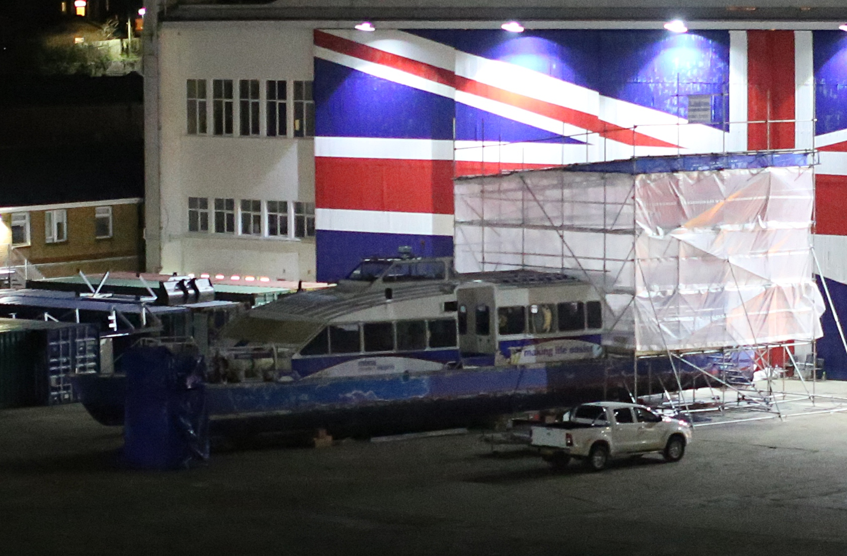 Thames Clipper fast ferry (one of Sky, Star or Storm Clipper) under refit at Wight Shipyard at East Cowes on the Isle of Wight.